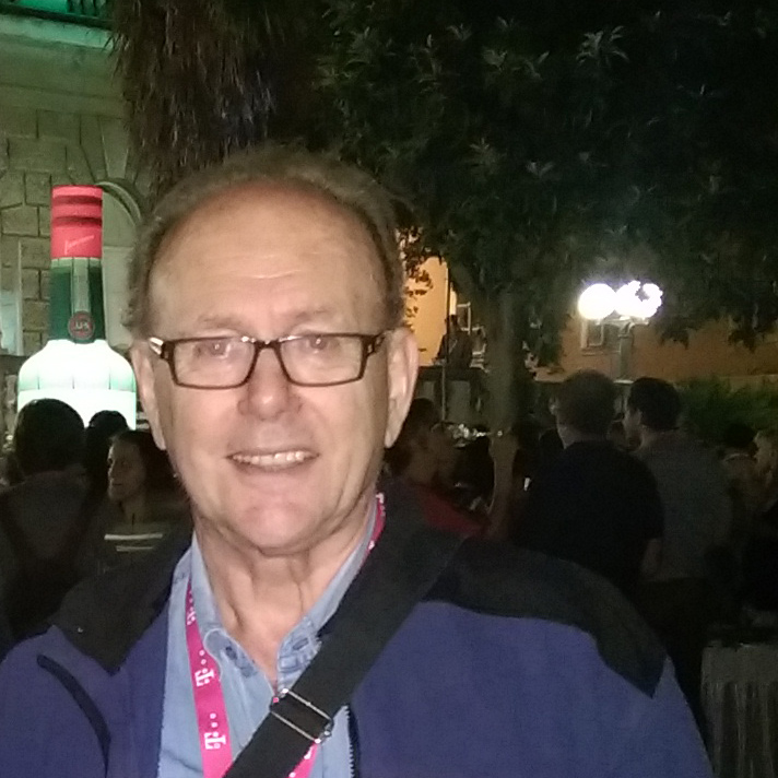 Composer Alfi Kabiljo at Pula film festival (2014)